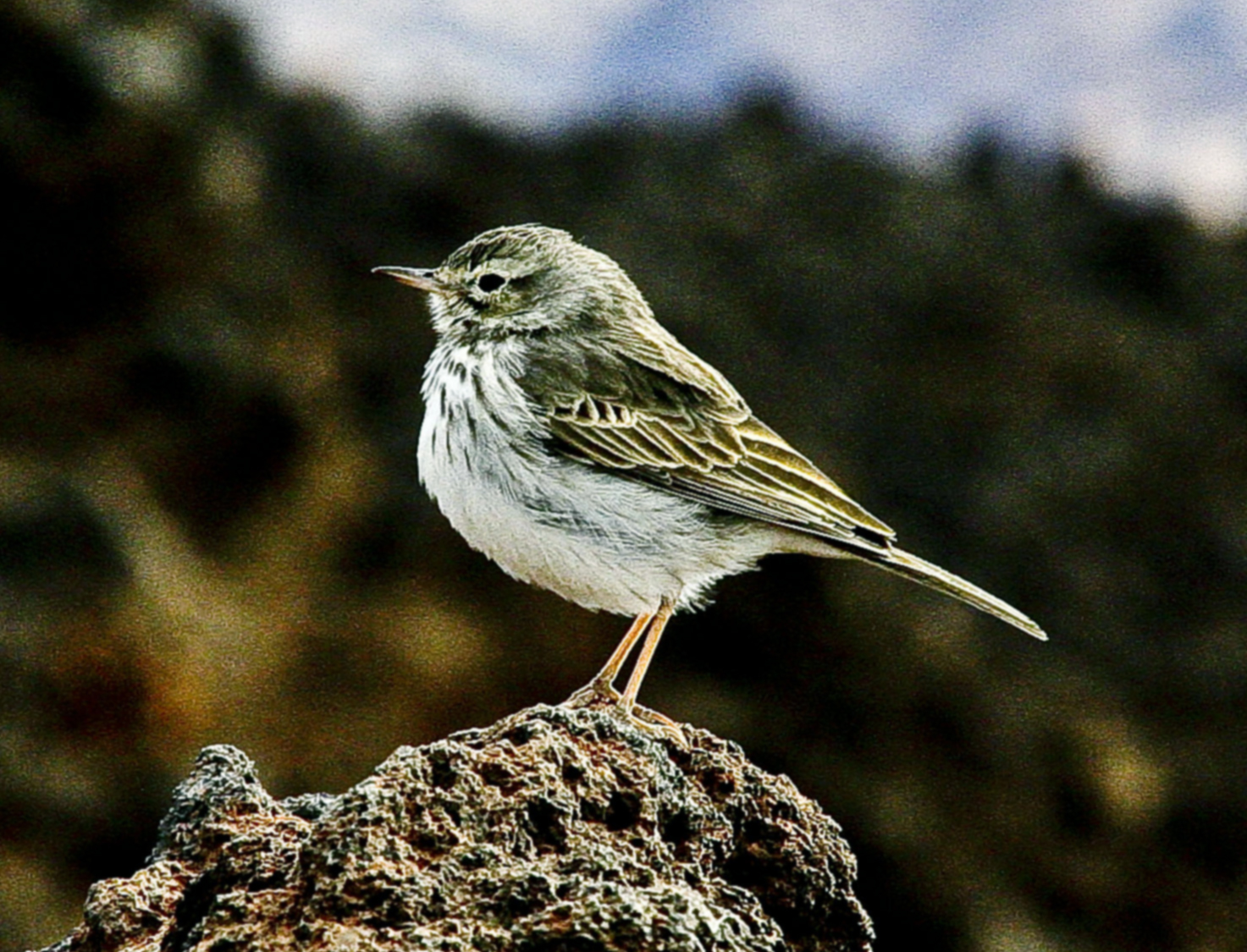 Anthus berthelotii, Teide, Tenerife, Islas Canarias